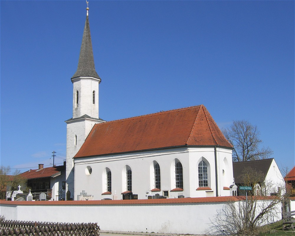 Baiernrain, view of St Peter and Paul Subsidiary Church from south-east.